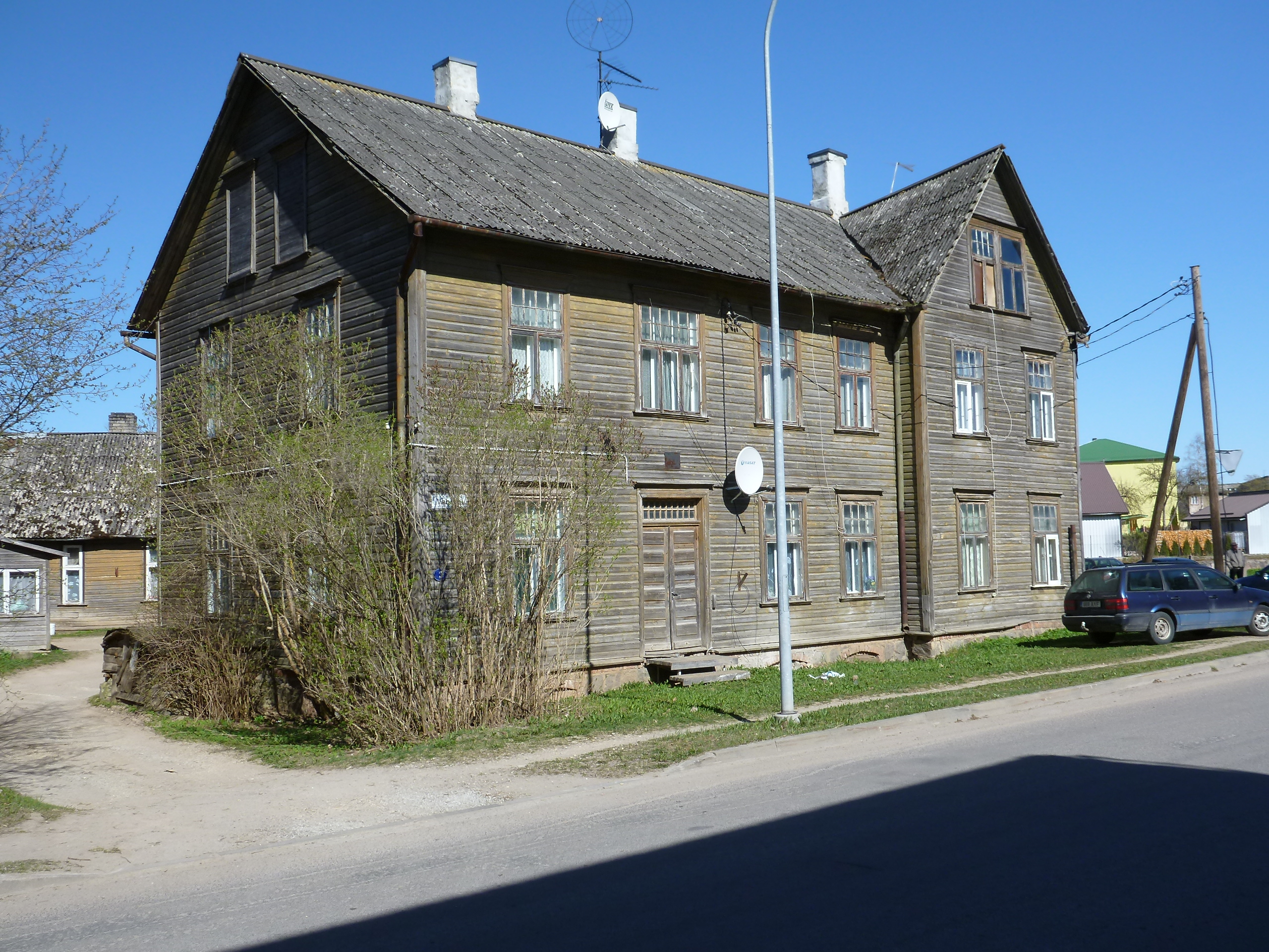 A house in Viljandi